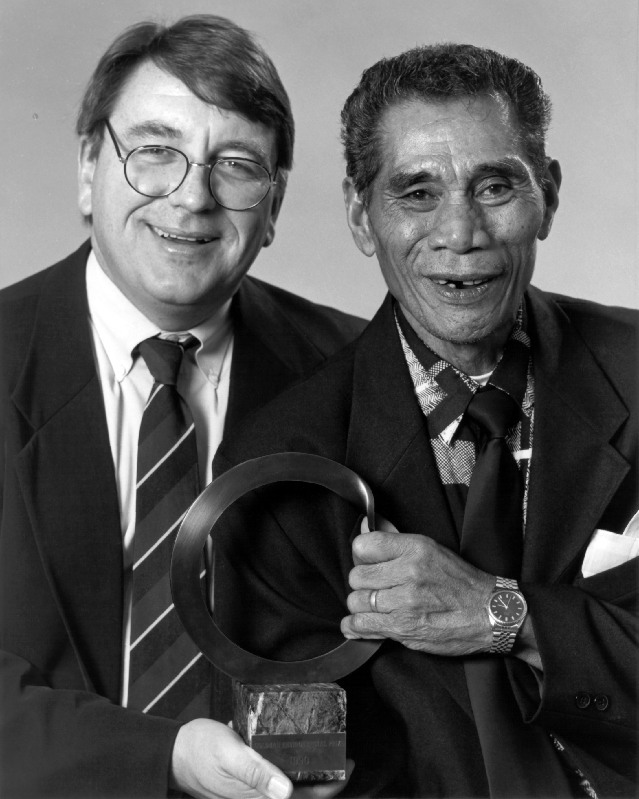 1997 Goldman Environmental Prize recipients, Paul Alan Cox (left) and Fuiono Senio (right)